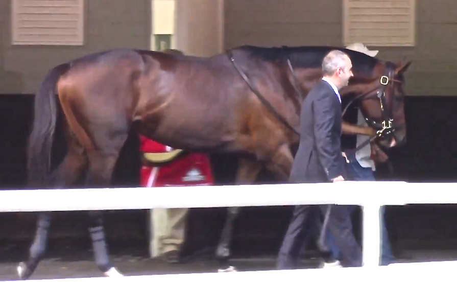 Tonalist, winner of the 2014 Belmont Stakes in saddling paddock prior to race